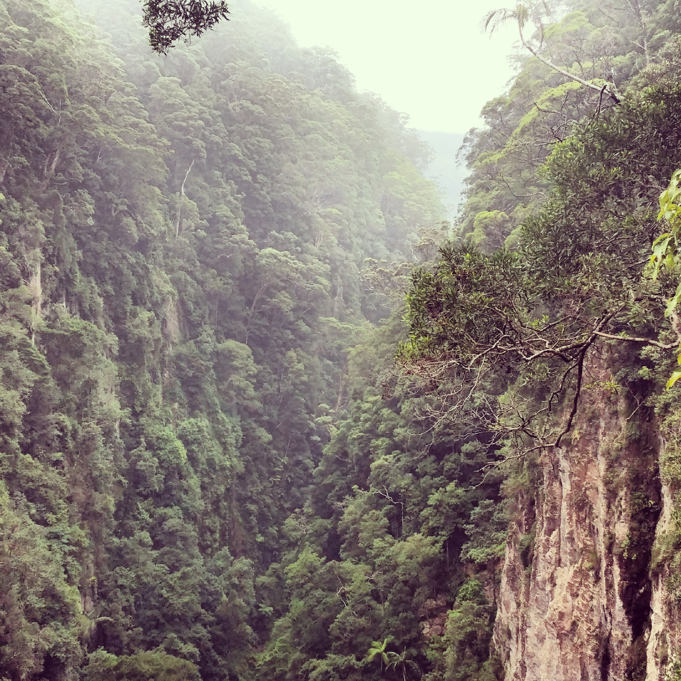 Lamington National Park